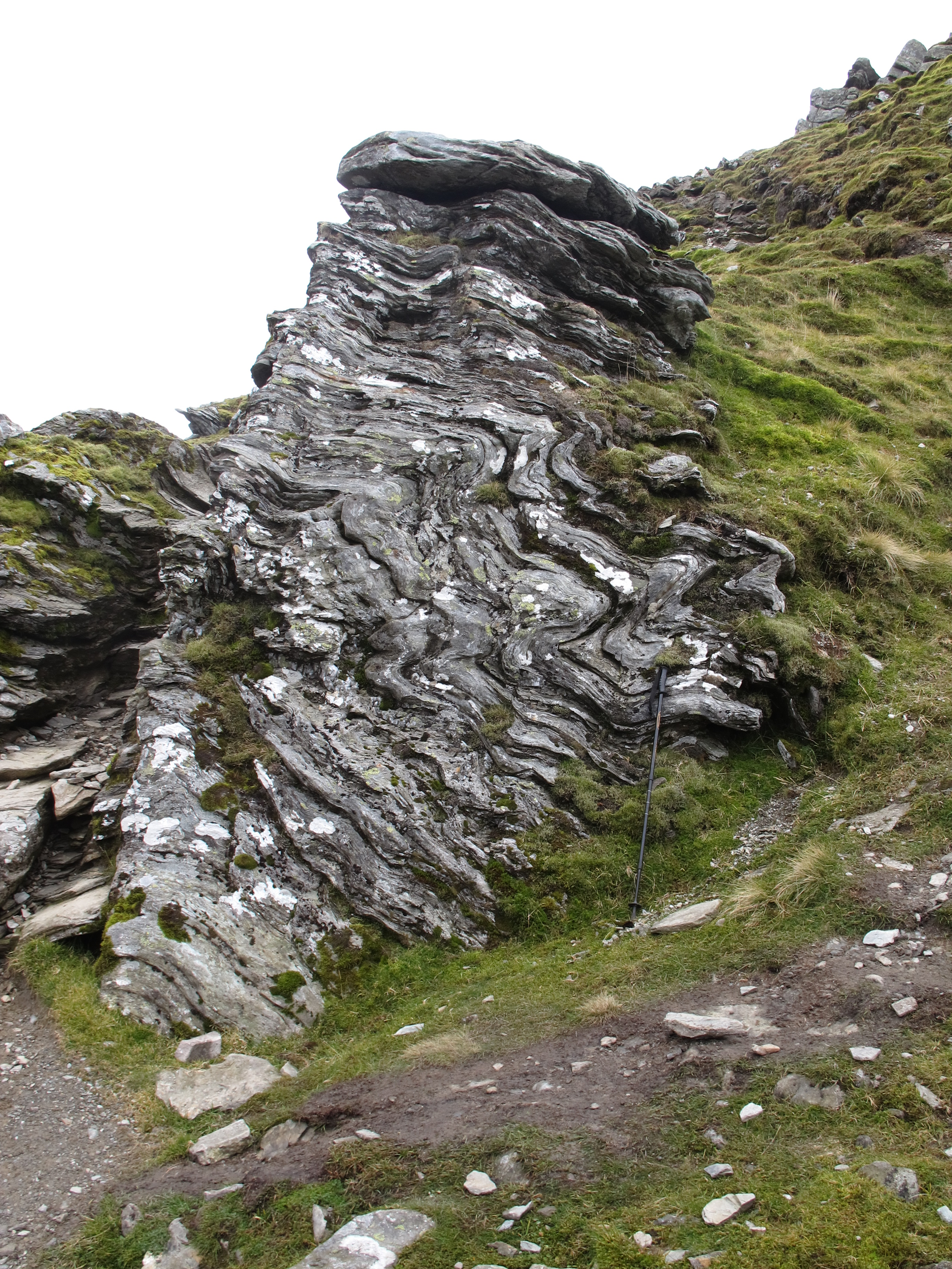 Folded phyllites of the Ordovician Ben Ledi Grit Formation, part of the Southern Highland Group of the Dalradian Supergroup just below the summit of Ben Lomond - walking pole about 1.2 m long for scale